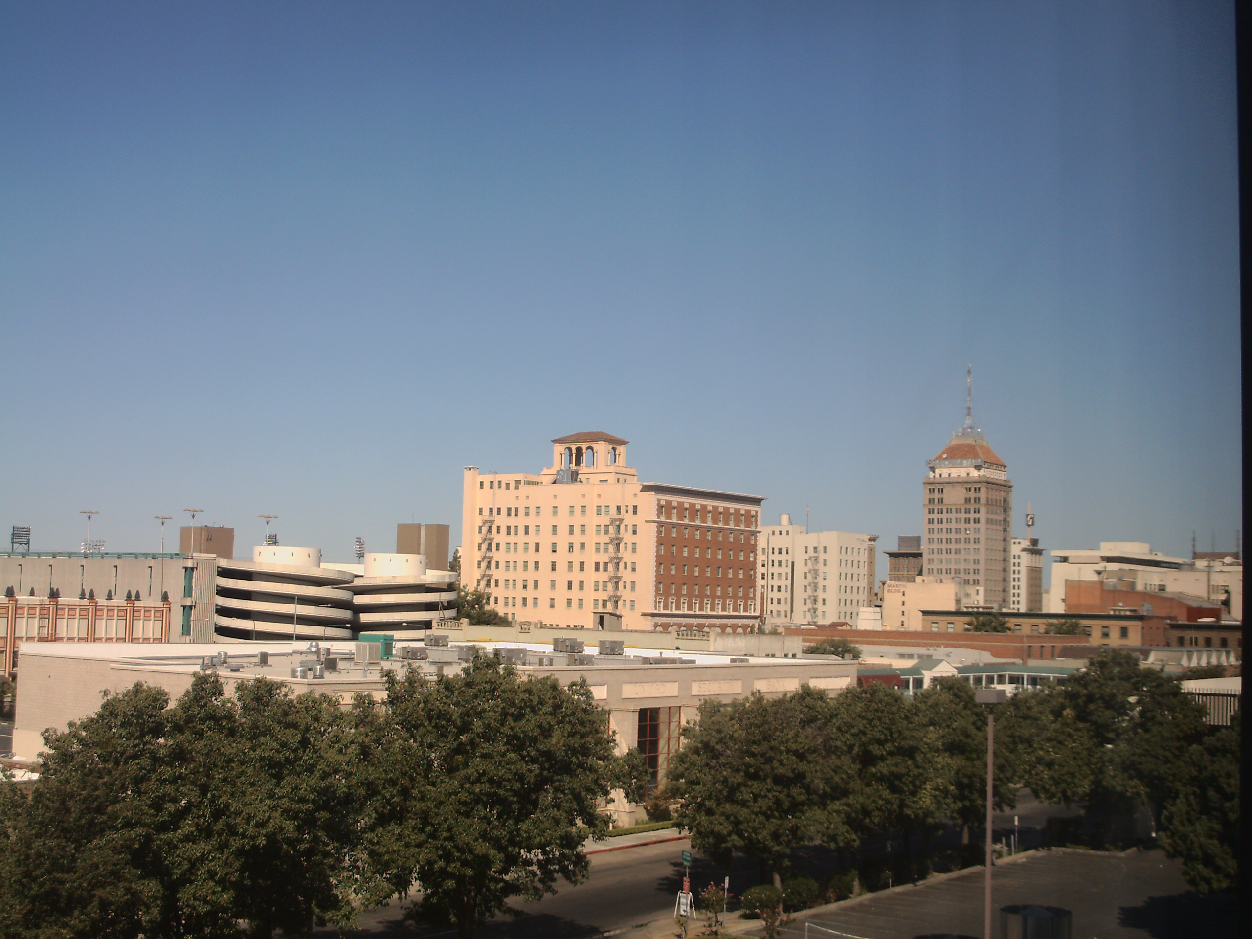 downtown fresno